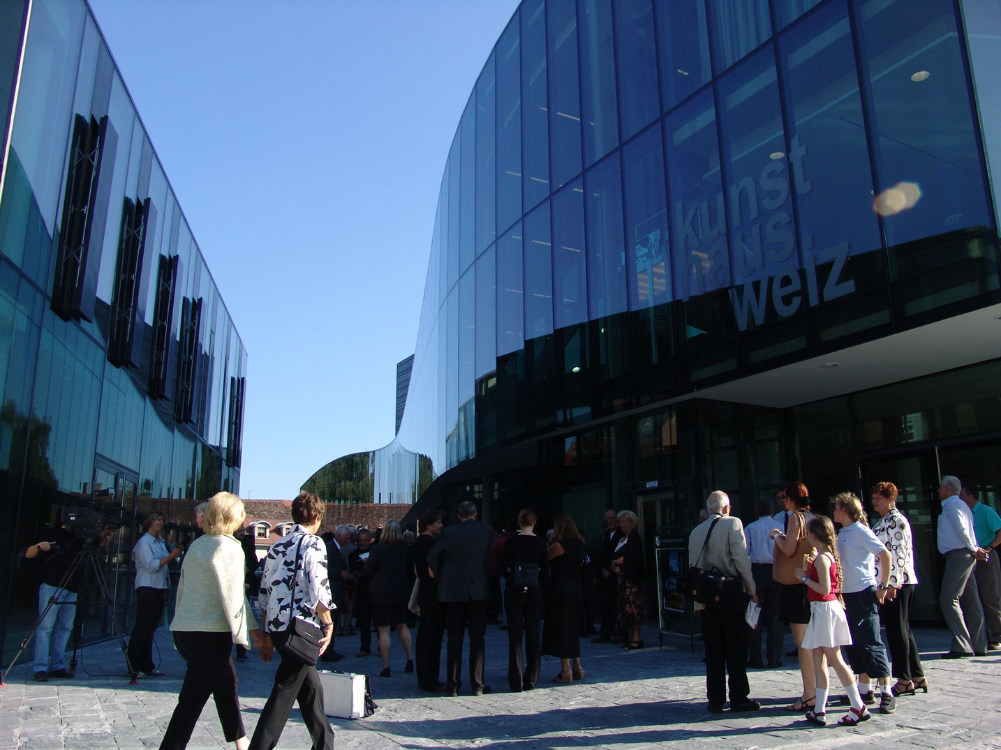 Art Center Weiz, Architect: Dietmar Feichtinger